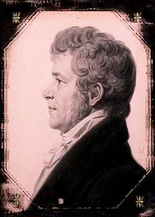 1805 portrait of Thomas Blount by Charles Balthazar Julien Fevret.